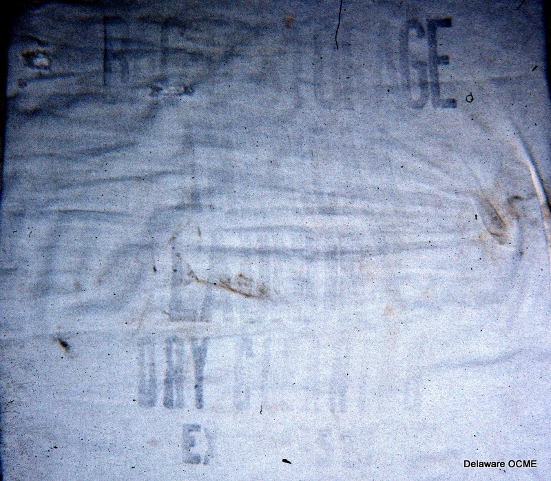 Laundry bag found at the site where an unidentified young female was found in Bear, Delaware.